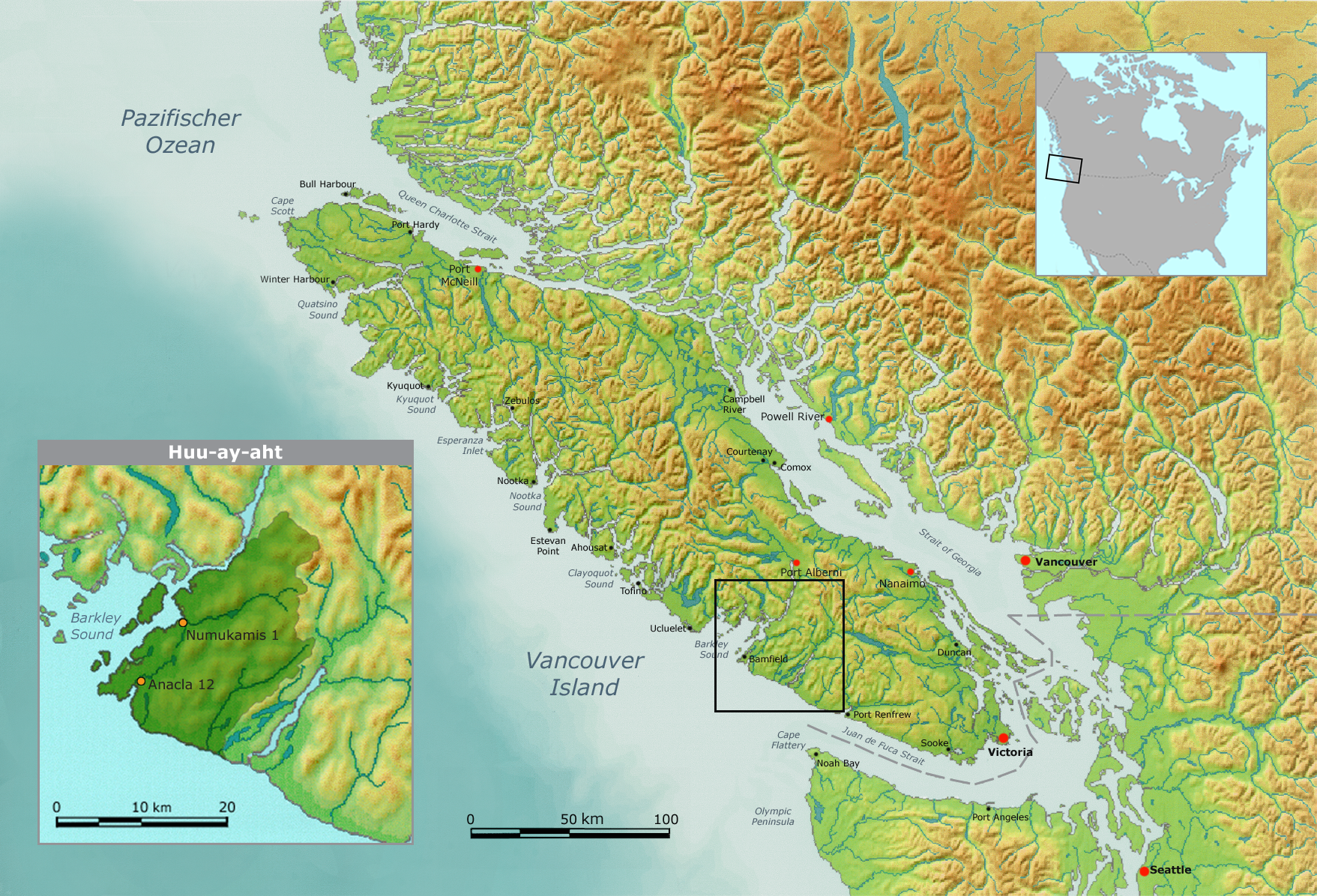 Map of Huu-ay-aht tribal territory